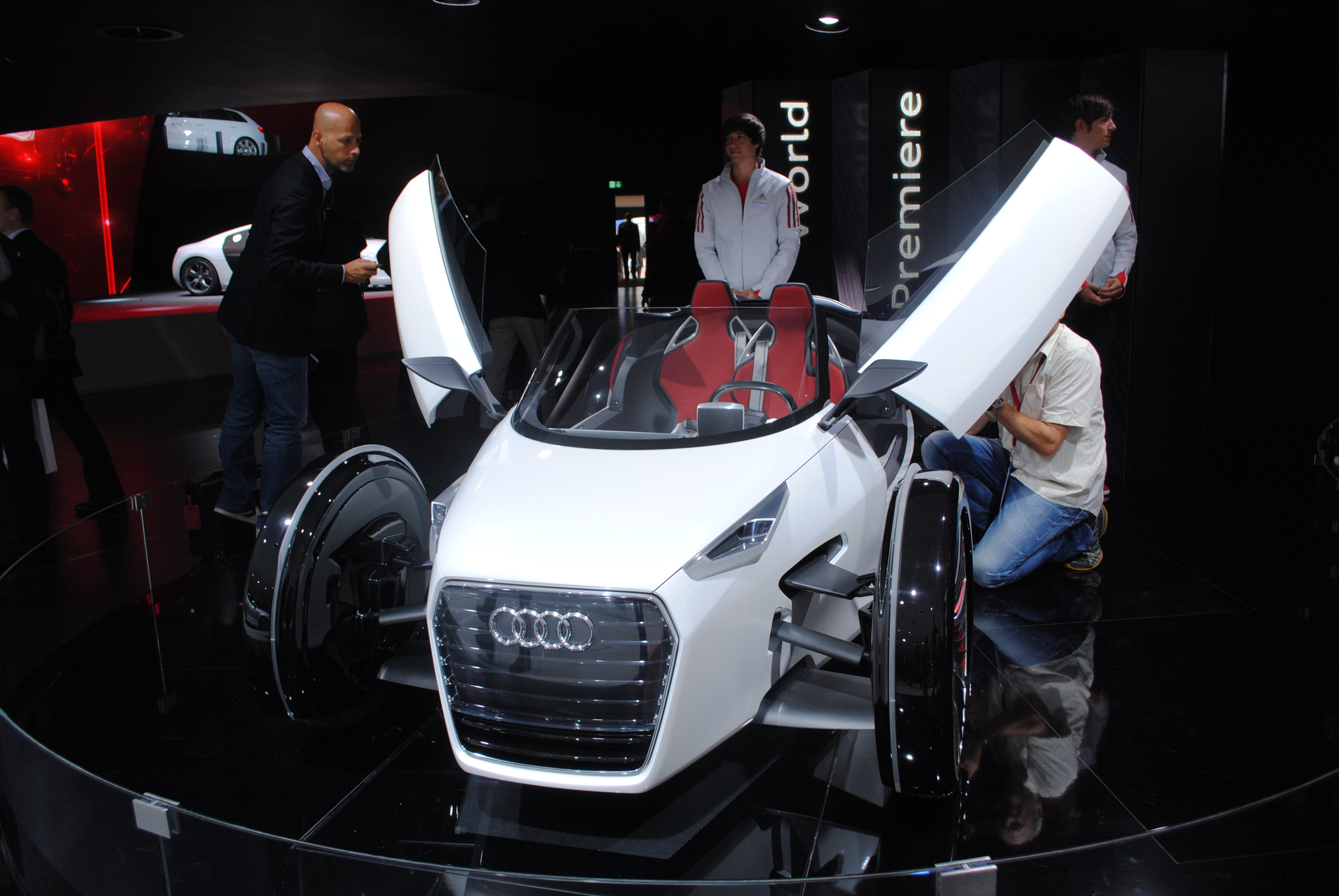 More photos and info